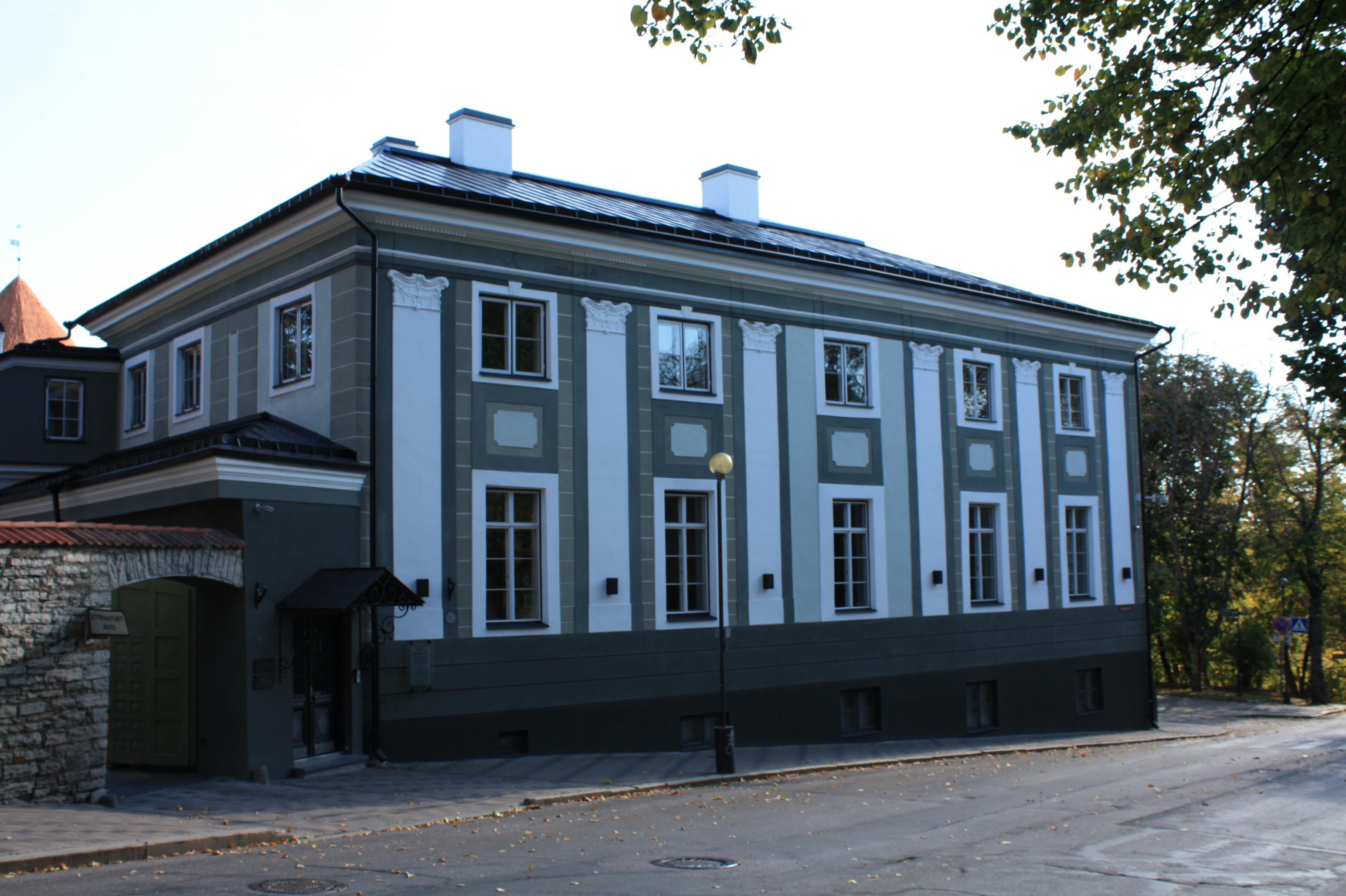 Tallinn comander's house